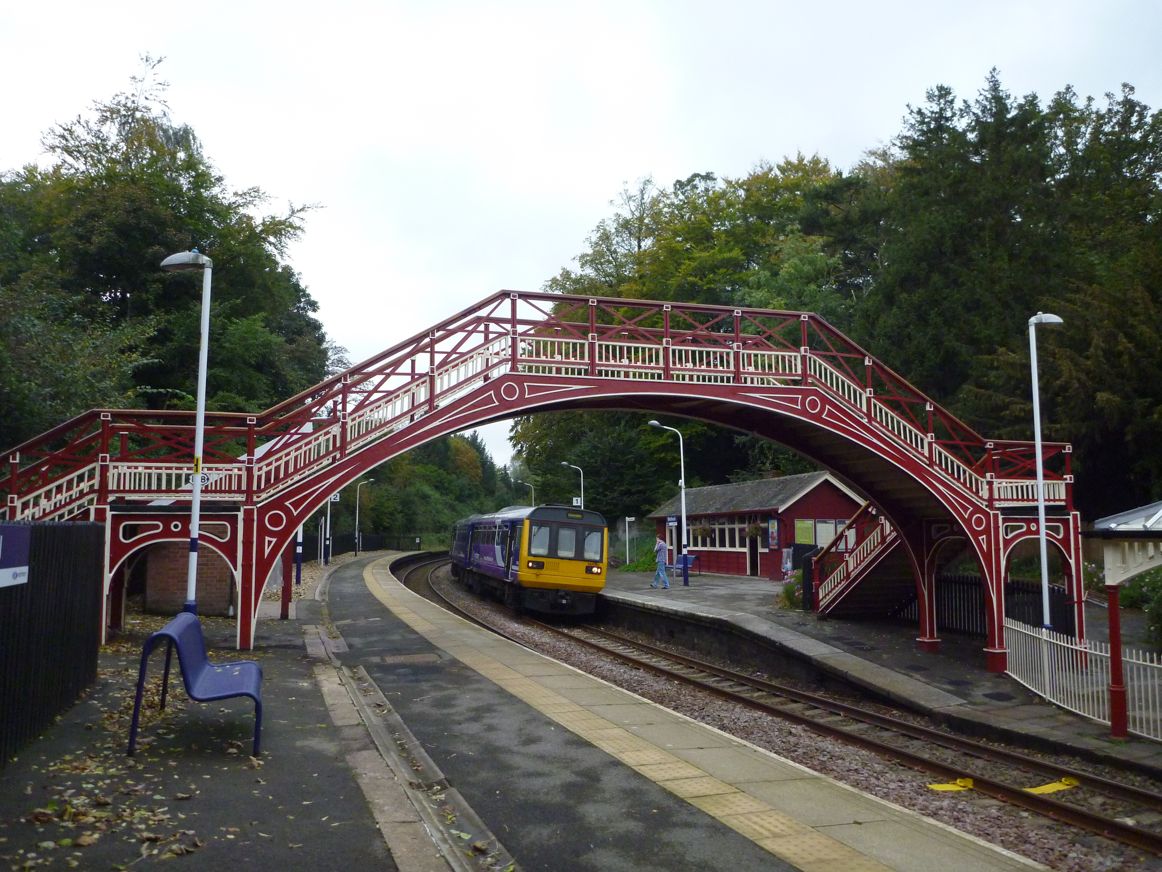 Wetheral Station, Cumbria, UK. Photo taken in October 2009, after the station had been renovated in May/June that year.